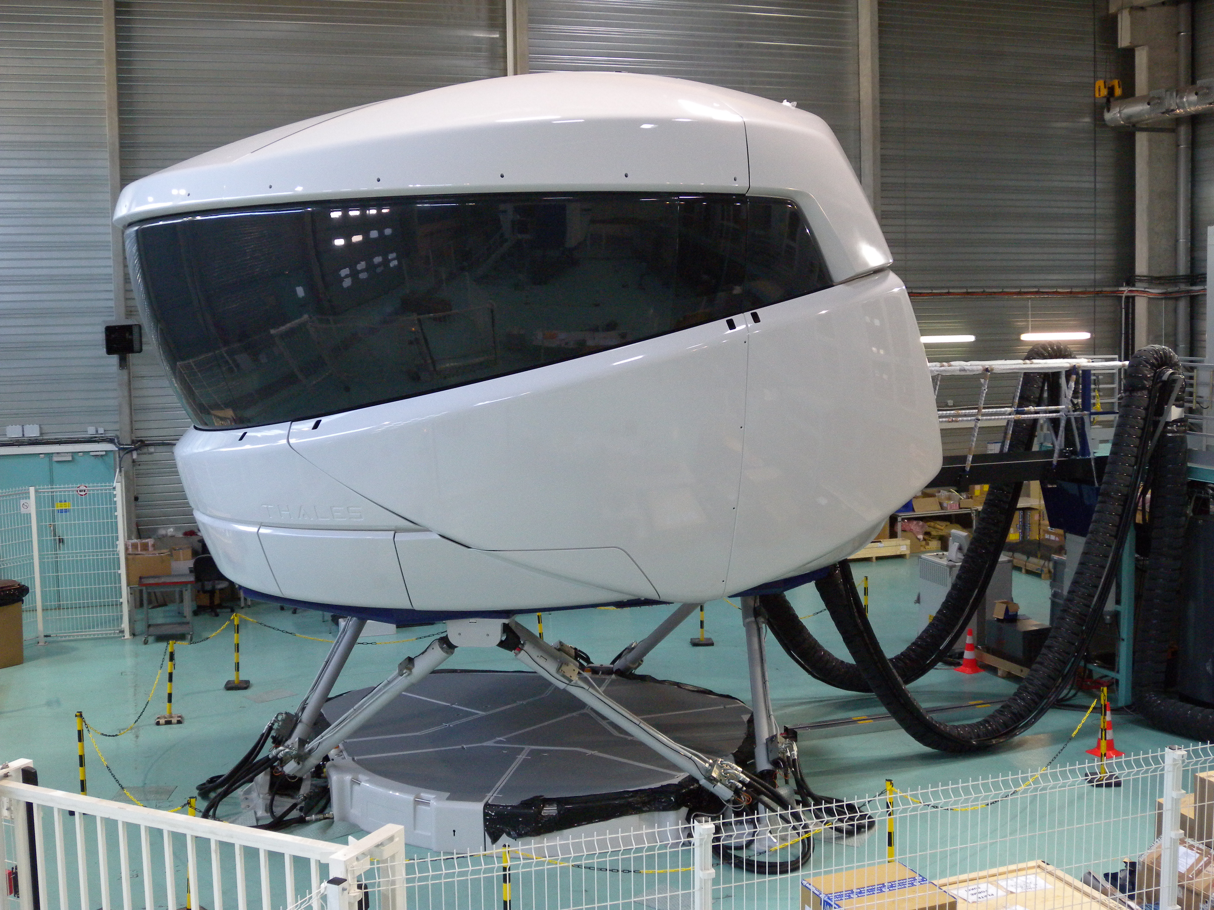 The Full Flight Simulator is manufactured by Thales Training & Simulation to support the SSJ100 Program